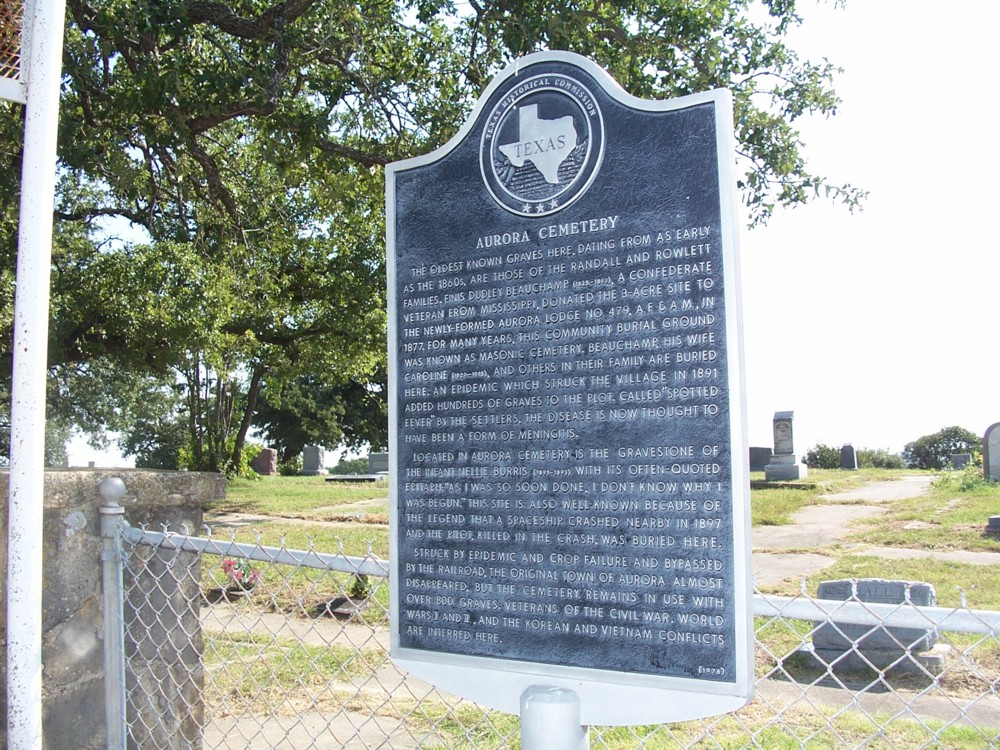 plaque at the cemetery of Aurora, Texas